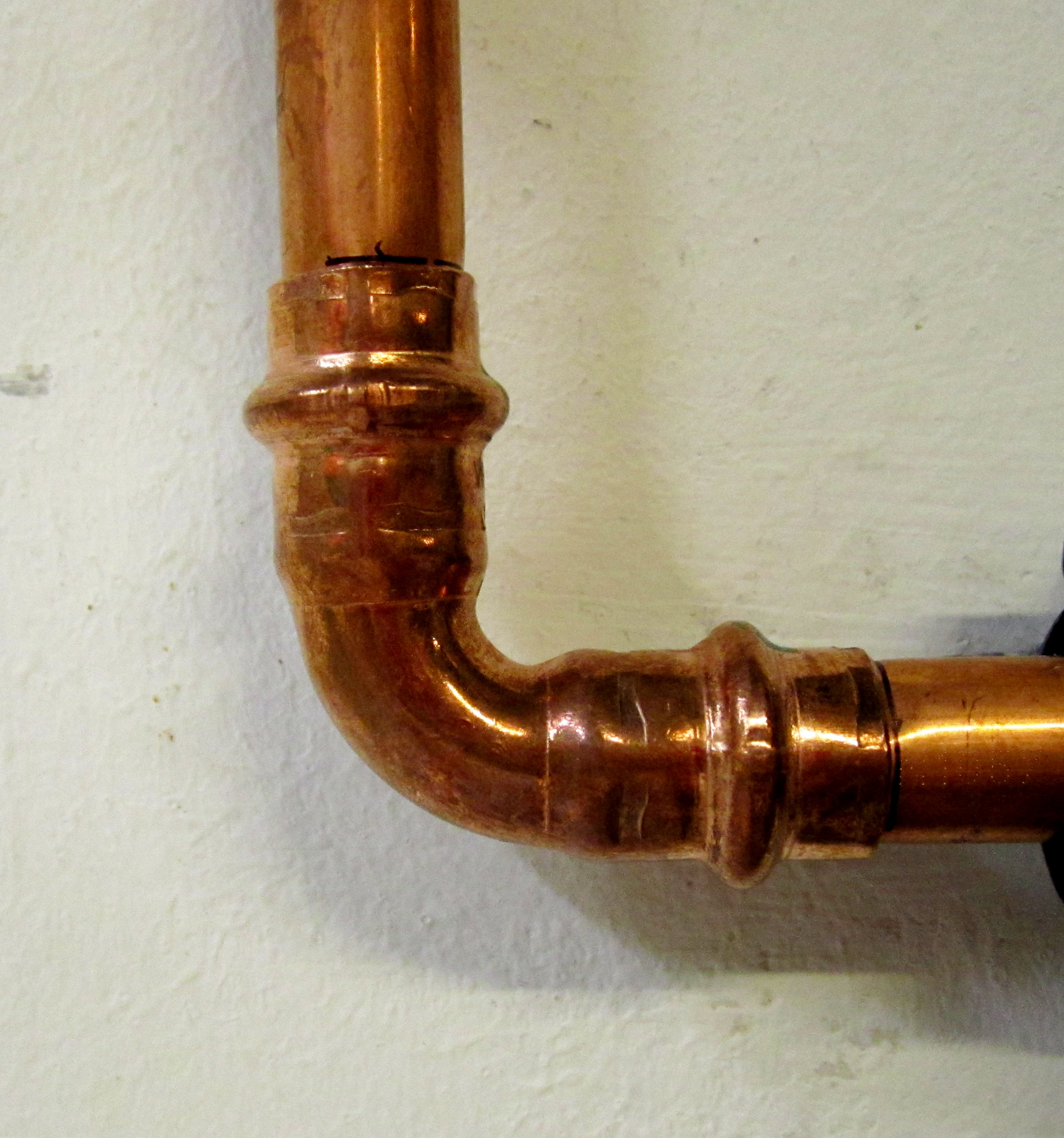 copper pipes joint with press fitting elbow, diameter 15mm